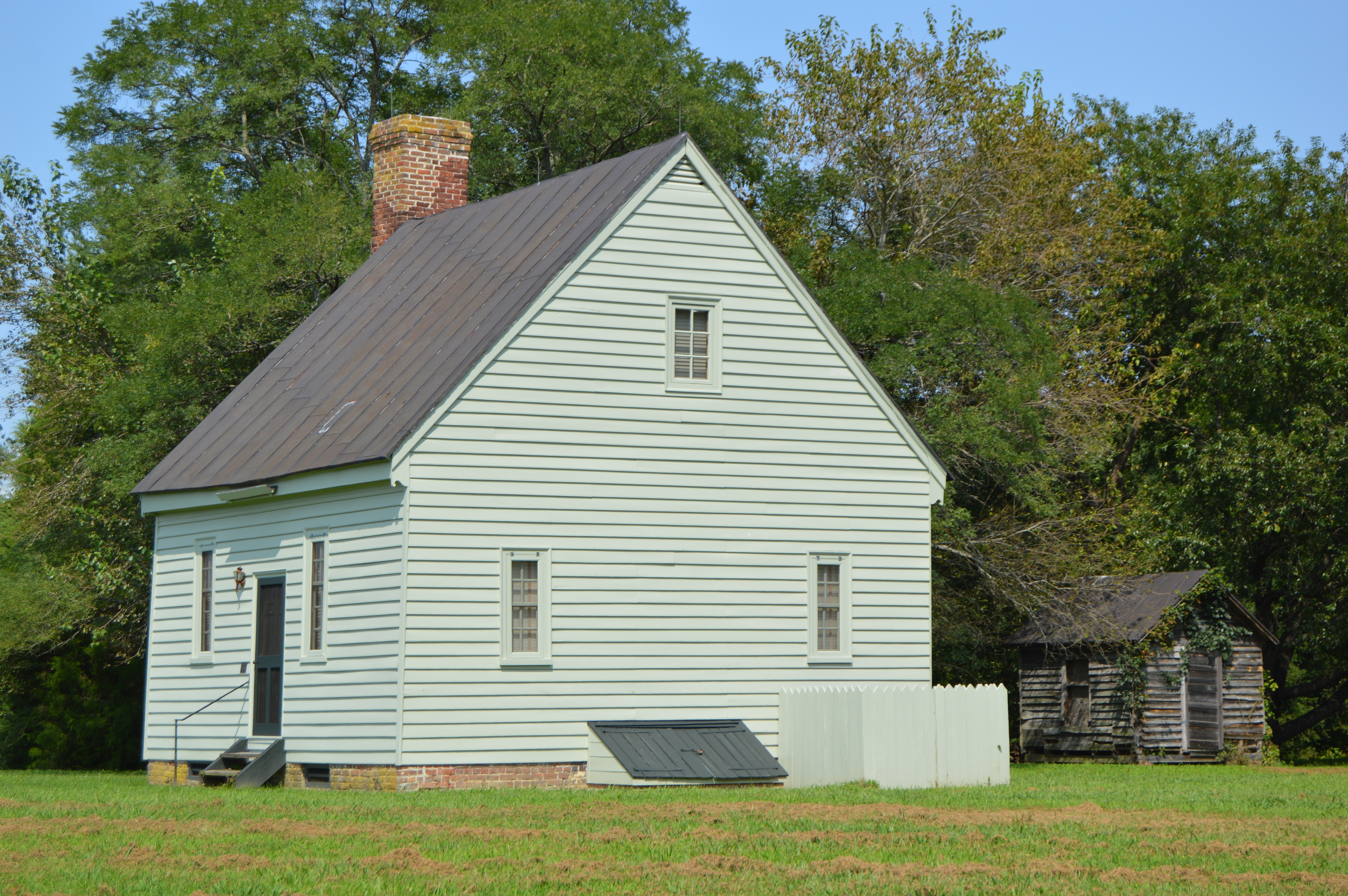 Front and southern side of the Claughton-Wright House, located on Wrights Cove Drive in the Cherry Point Neck of Northumberland County, Virginia, United States. Built in 1787, it is listed on the National Register of Historic Places.